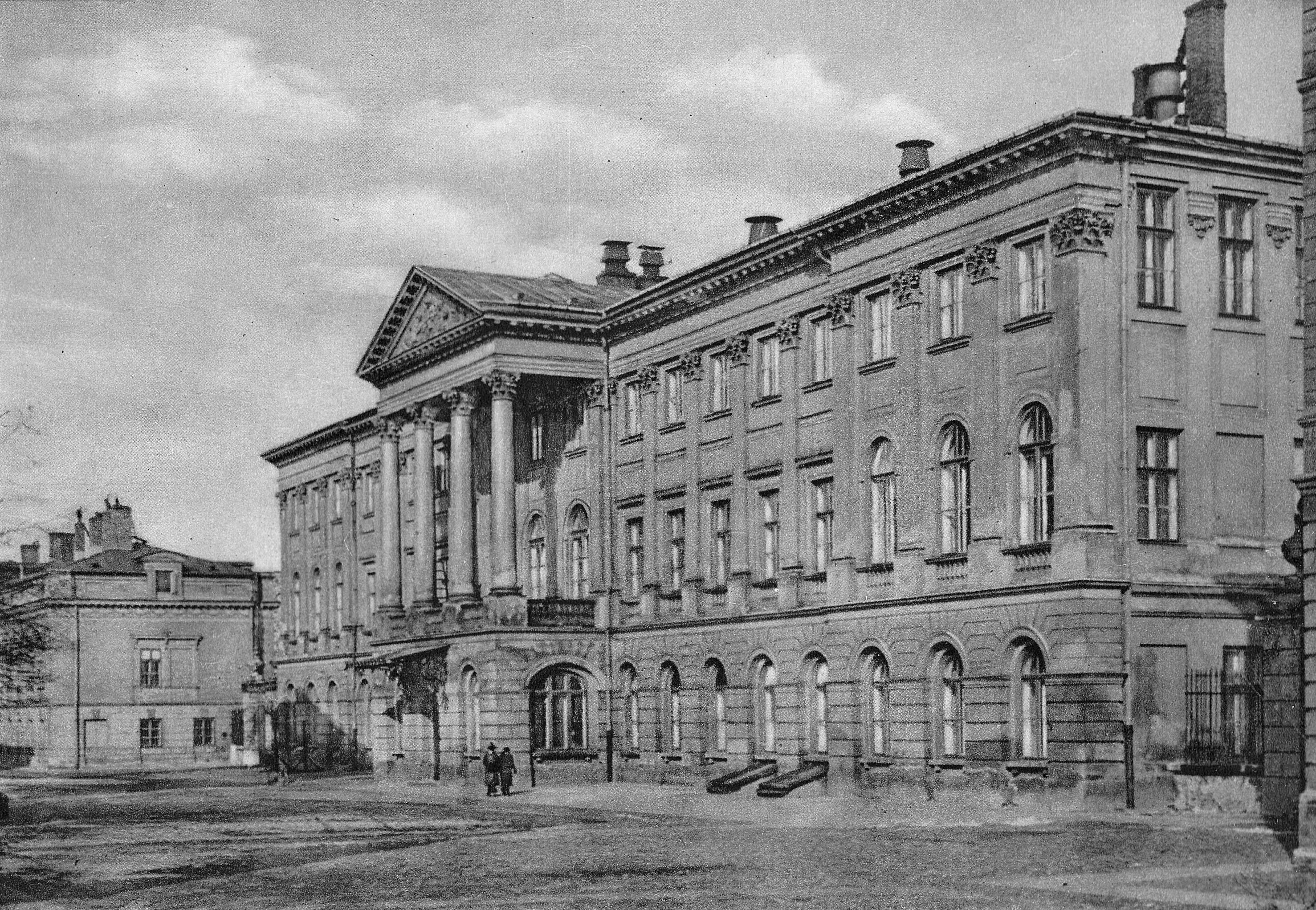 Kazimierzowski Palace in Warsaw